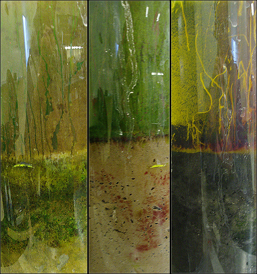 Photos edited specifically for the winogradsky column article - taken this year (2006).